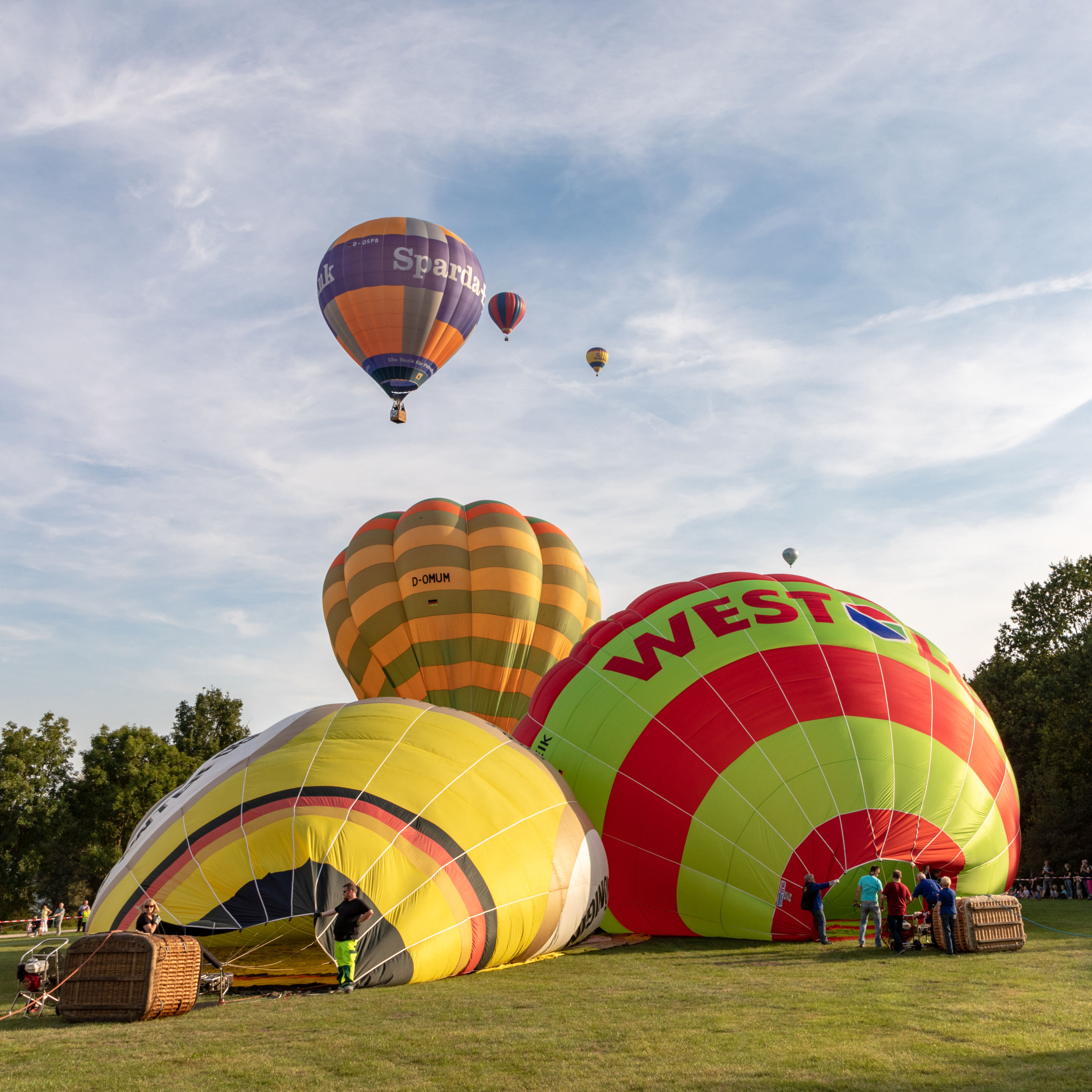 Hot air balloons at the 49th Montgolfiade in Münster (1st race), North Rhine-Westphalia, Germany